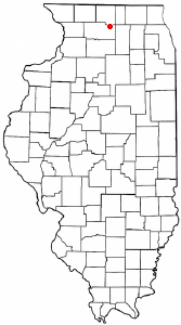 Category:Illinois city locator maps